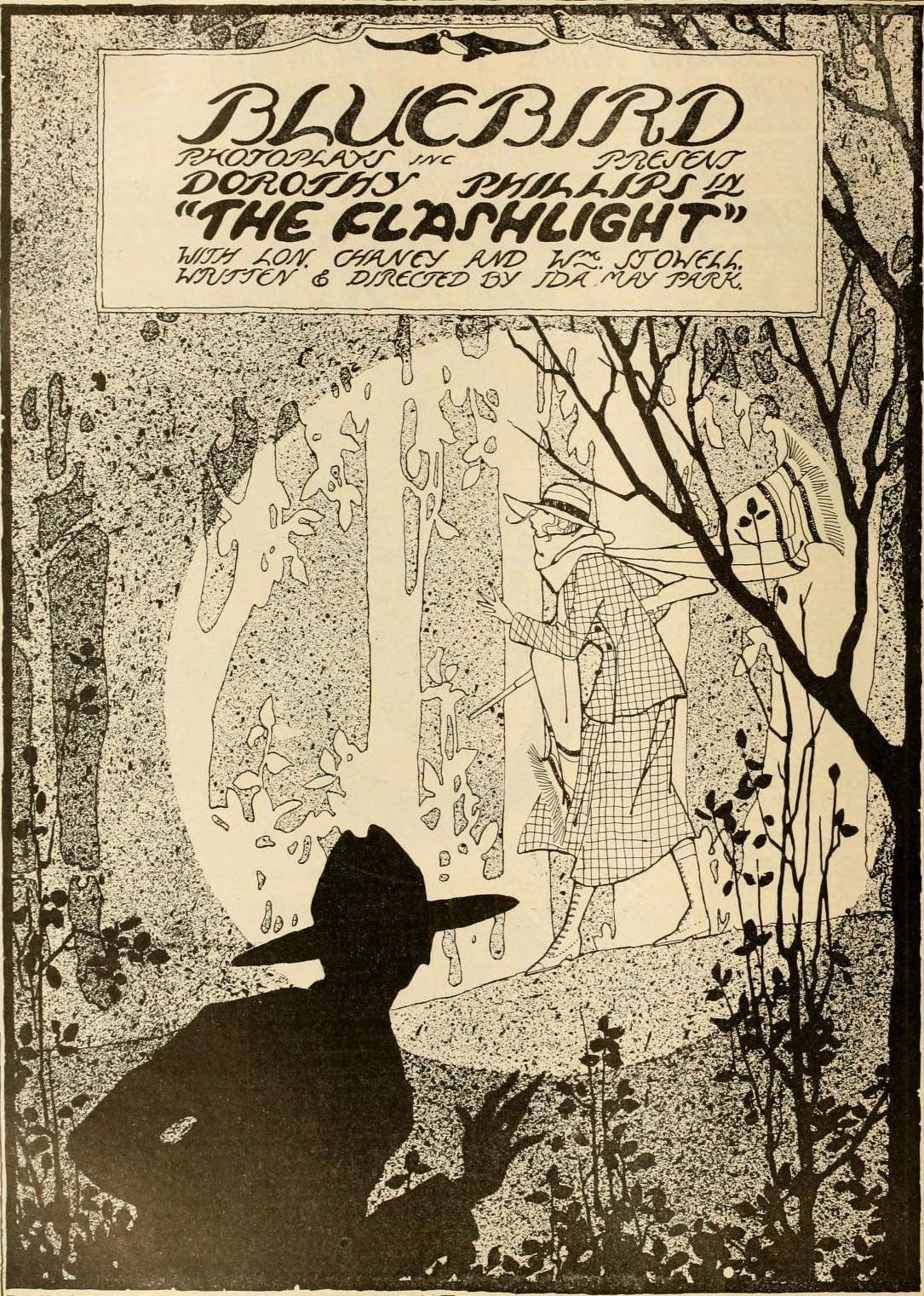 Advertisement in Moving Picture World for The Flashlight (1917).